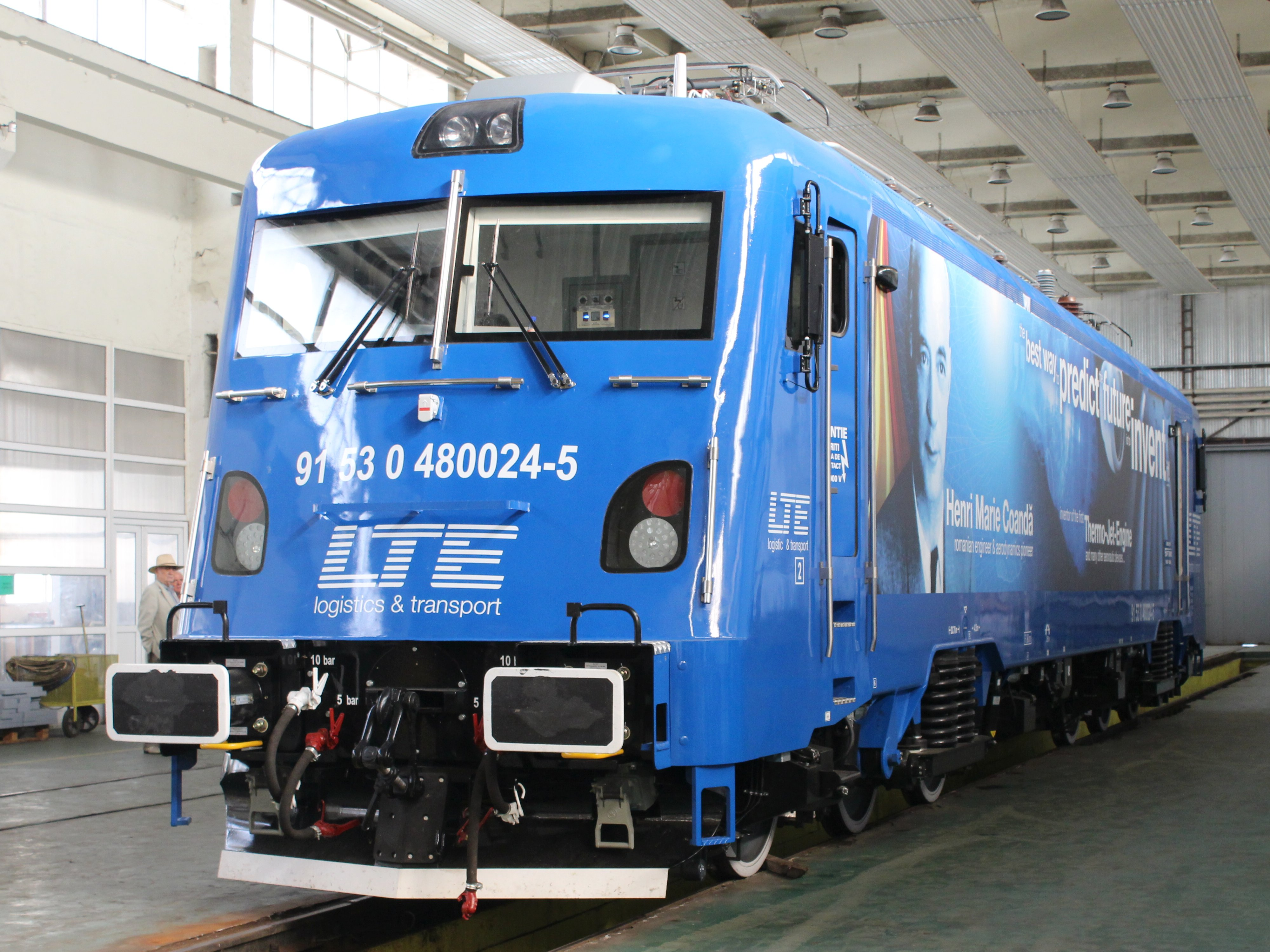 Locomotive 91 53 0 480024-5 Transmontana, Softronic